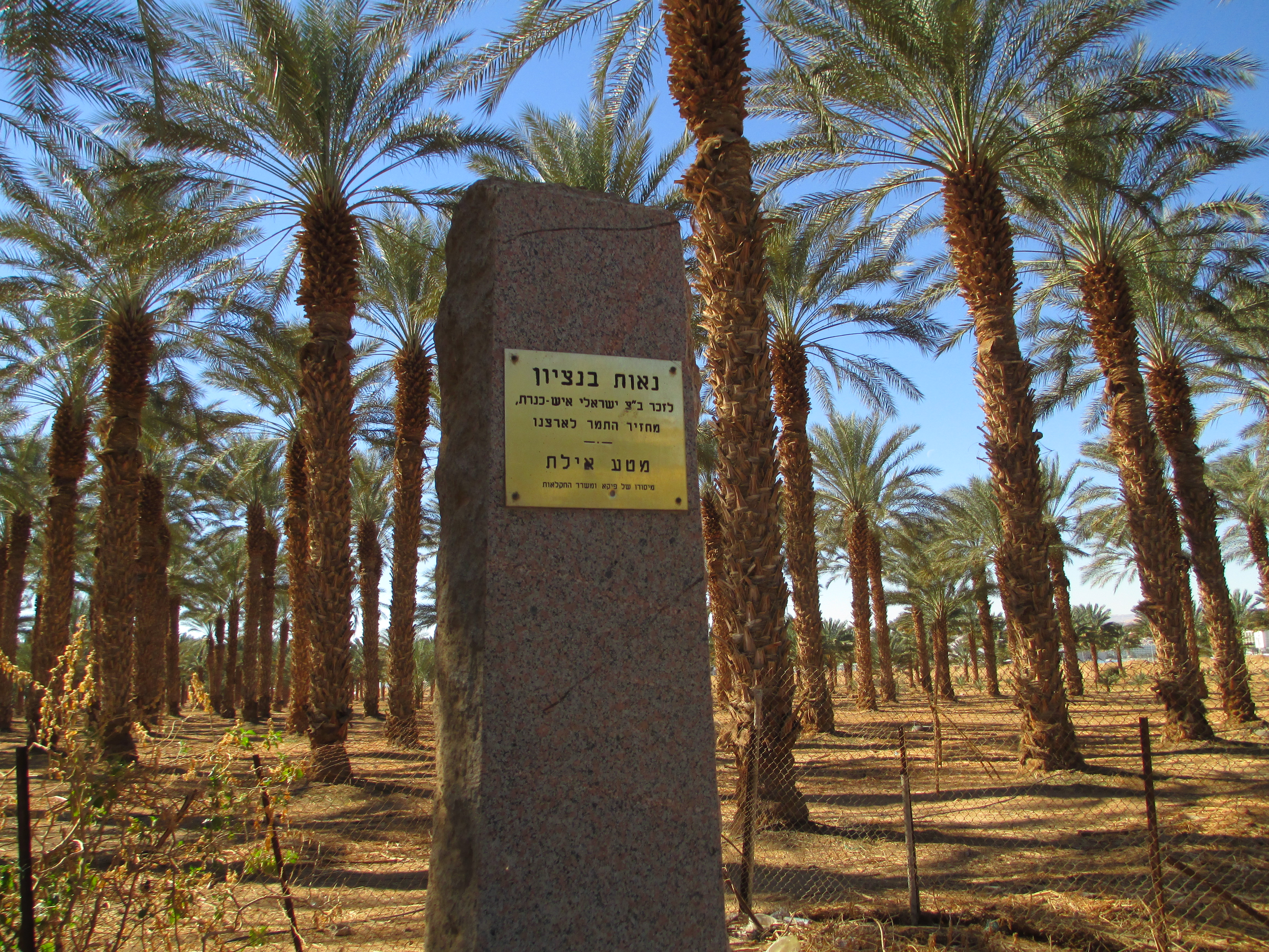 date palm trees in kibbutz eilot